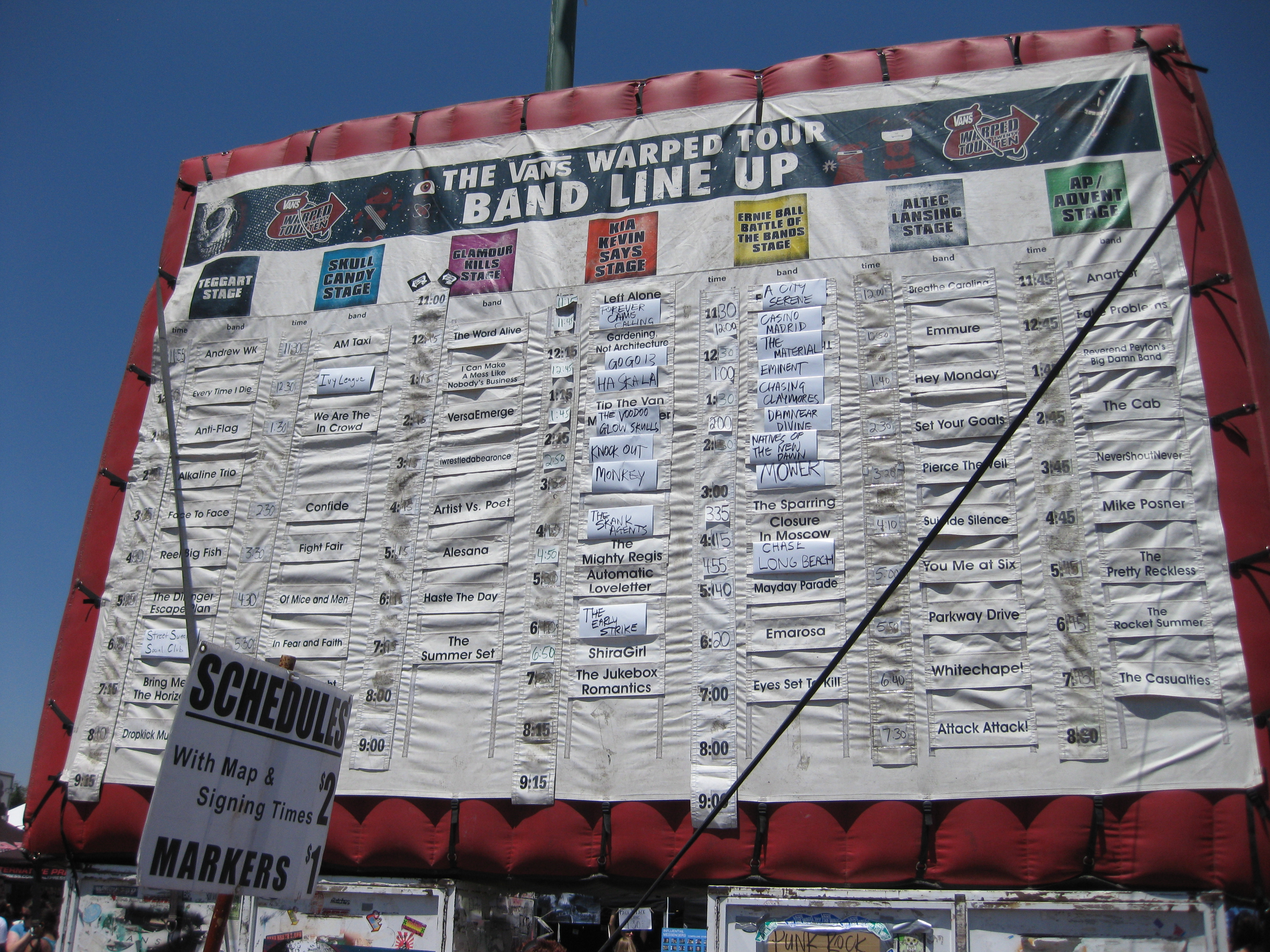 The posted schedule at the Warped Tour concert at the Cricket Wireless Amphitheatre in Chula Vista, California on August 10, 2010. Illustrates the manner in which the schedule of performers is set and communicated to attendees.